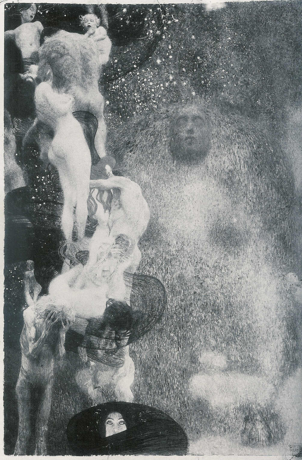 Philosophy, 1899–1907. Ceiling panel for the Great Hall of Vienna University. Oil on canvas, 430 x 300 cm. Destroyed by fire in Schloss Immendorf in 1945 (Gilles Néret (1999) Gustav Klimt: 1862-1918, Taschen, p. 94 ISBN: 9783822859803. )